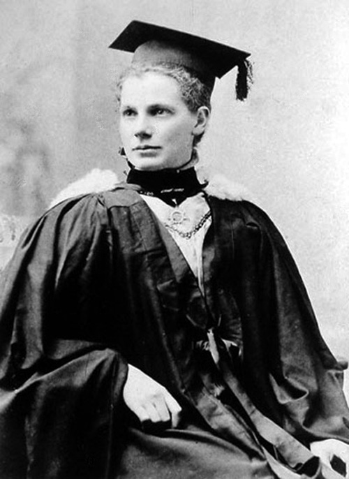 Margaret Cruickshank, the first woman doctor registered in New Zealand, pictured at her graduation from University of Otago Medical School, circa 1897.